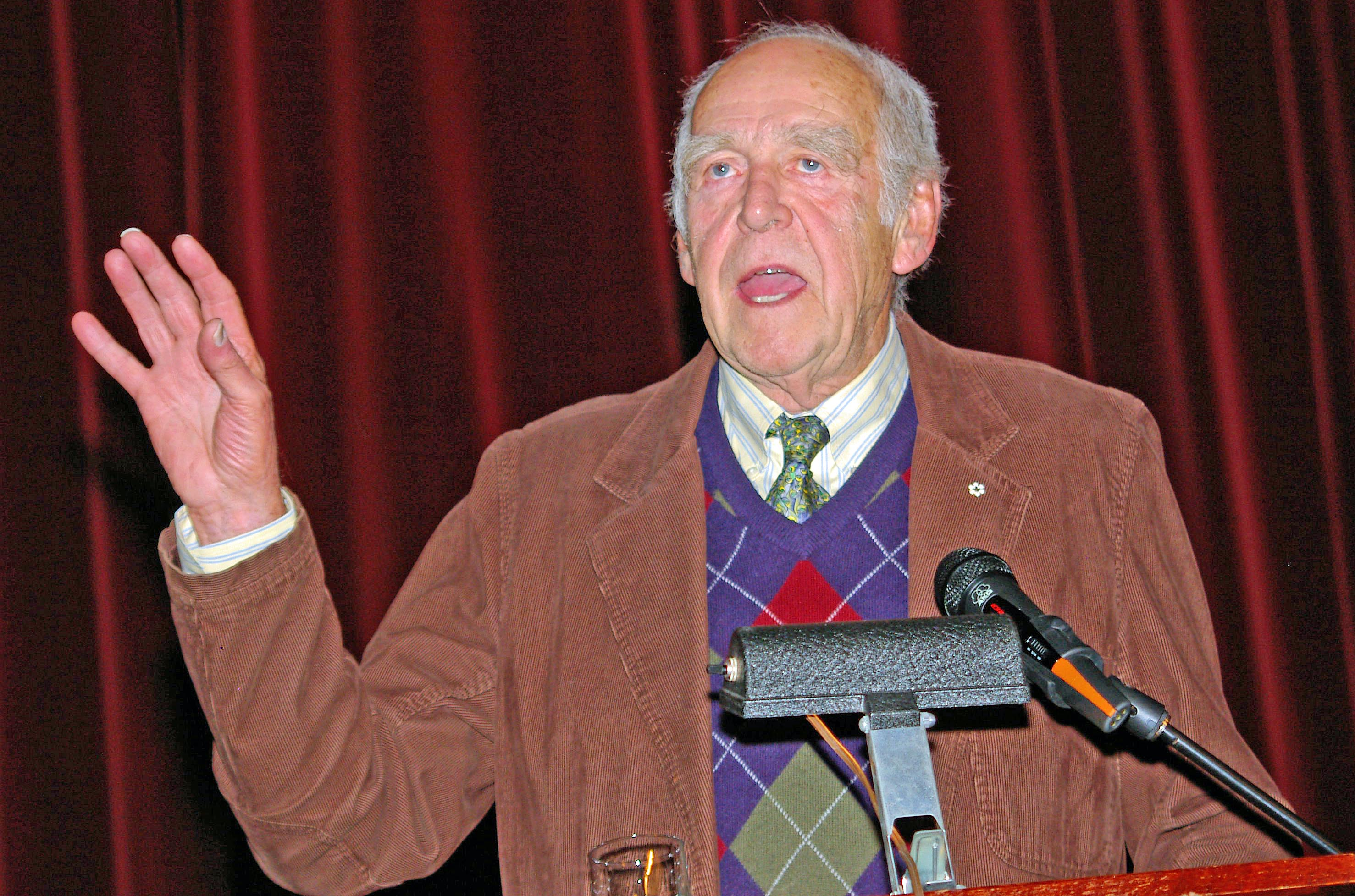 Canadian filmmaker Paul Almond was photographed at Victoria Hall in Westmount, Quebec, where he was signing copies of his latest book, The Deserter.